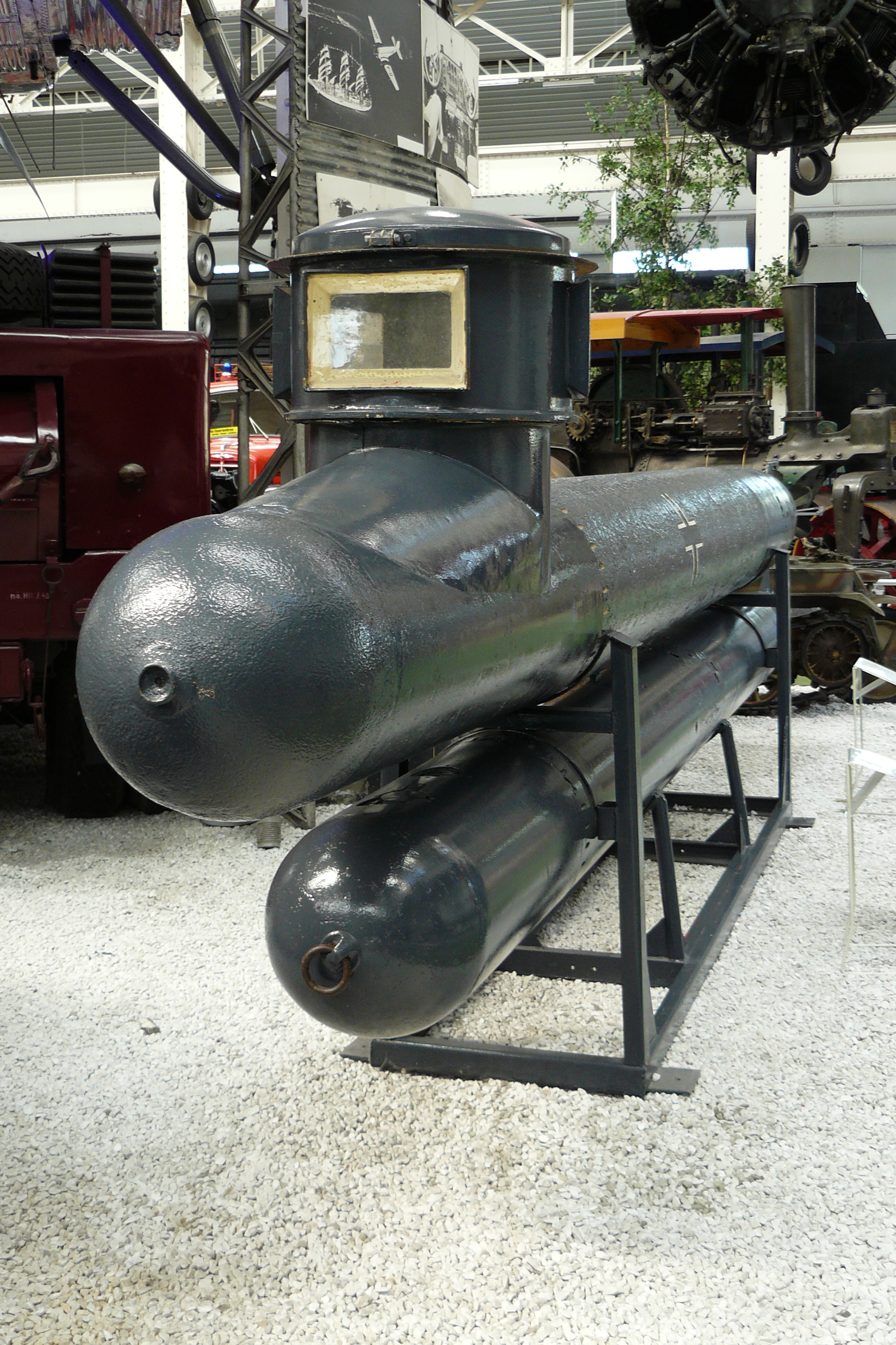 One man torpedo Marder (1944) as seen in Technik Museum Speyer.